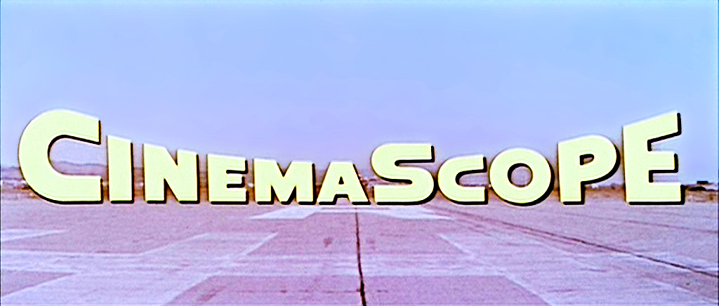 Screenshot from the film The High and the Mighty.